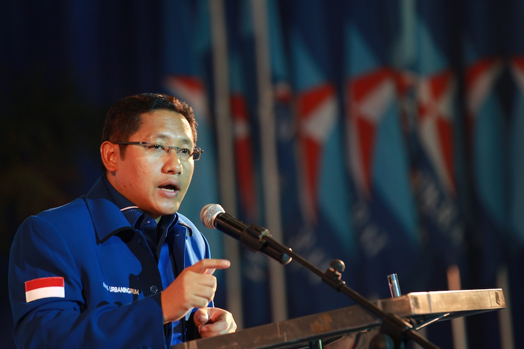 Anas Urbaningrum, chairman of Democratic Party, gave speech in an event.